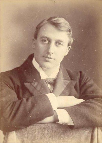 Wallace Brownlow in the 1890s